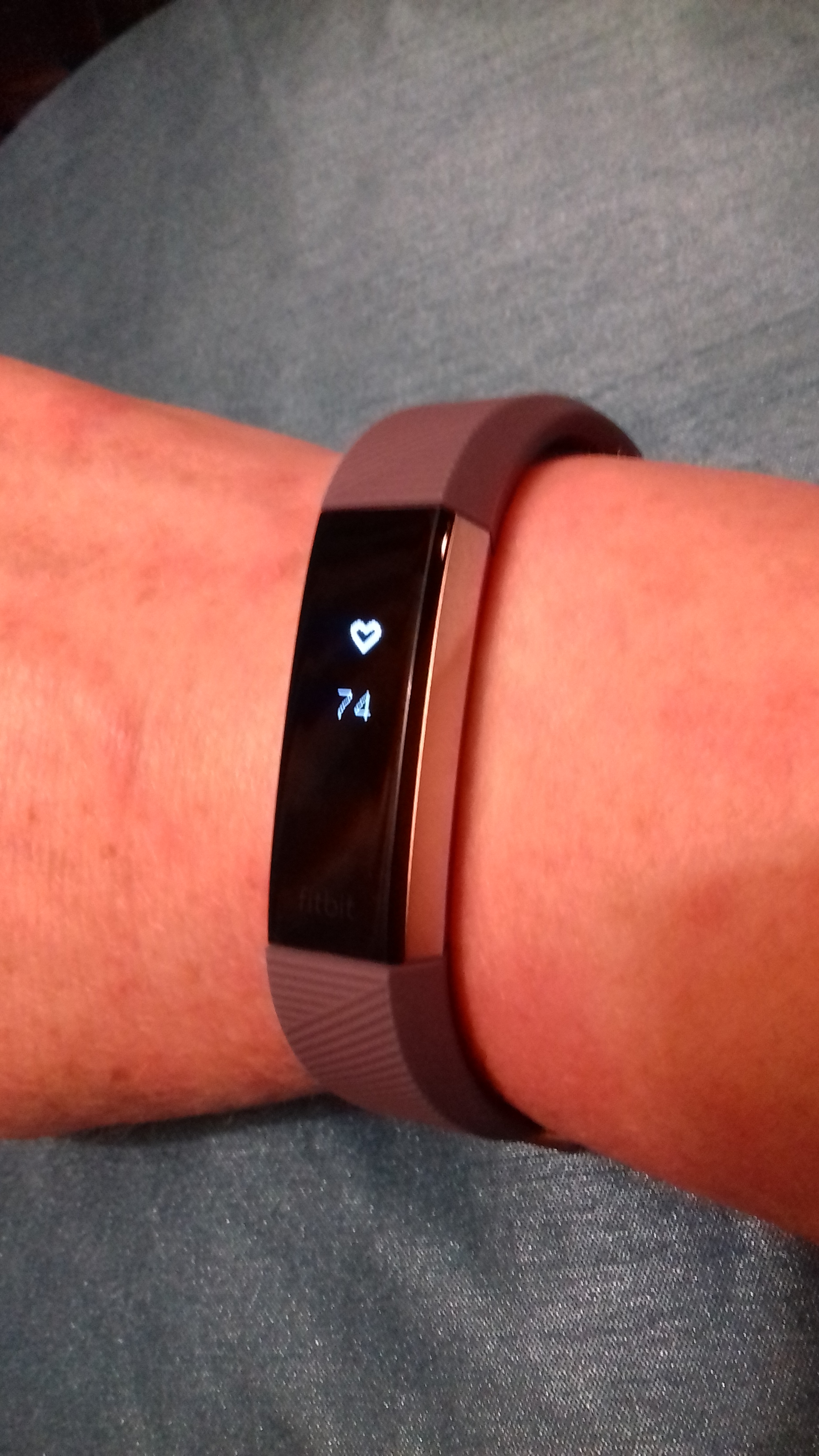 Fitbit Alta HR fitness tracker wristband showing display of heart rate.